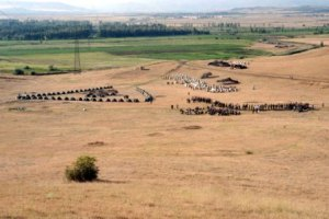 VAZIANI TRAINING BASE, Georgia-Approximately 400 Marines and Georgian Forces joined together for this part of Immediate Response 2008. The field camp was assembled in under an hour.